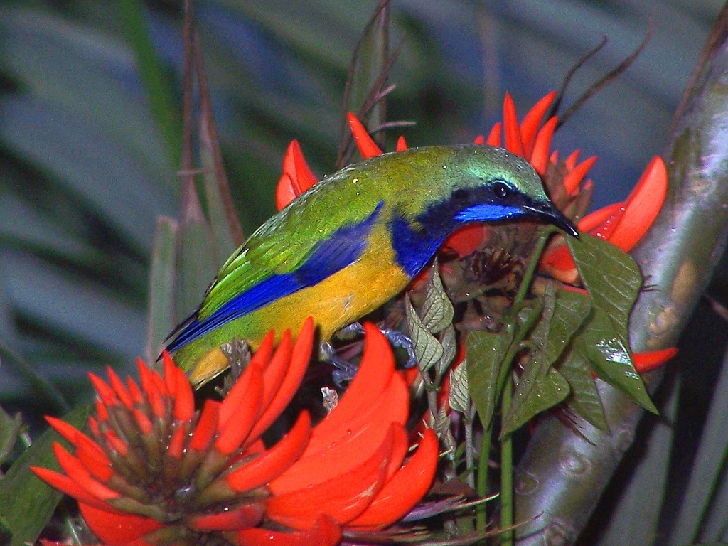 Orange-bellied Leafbird.